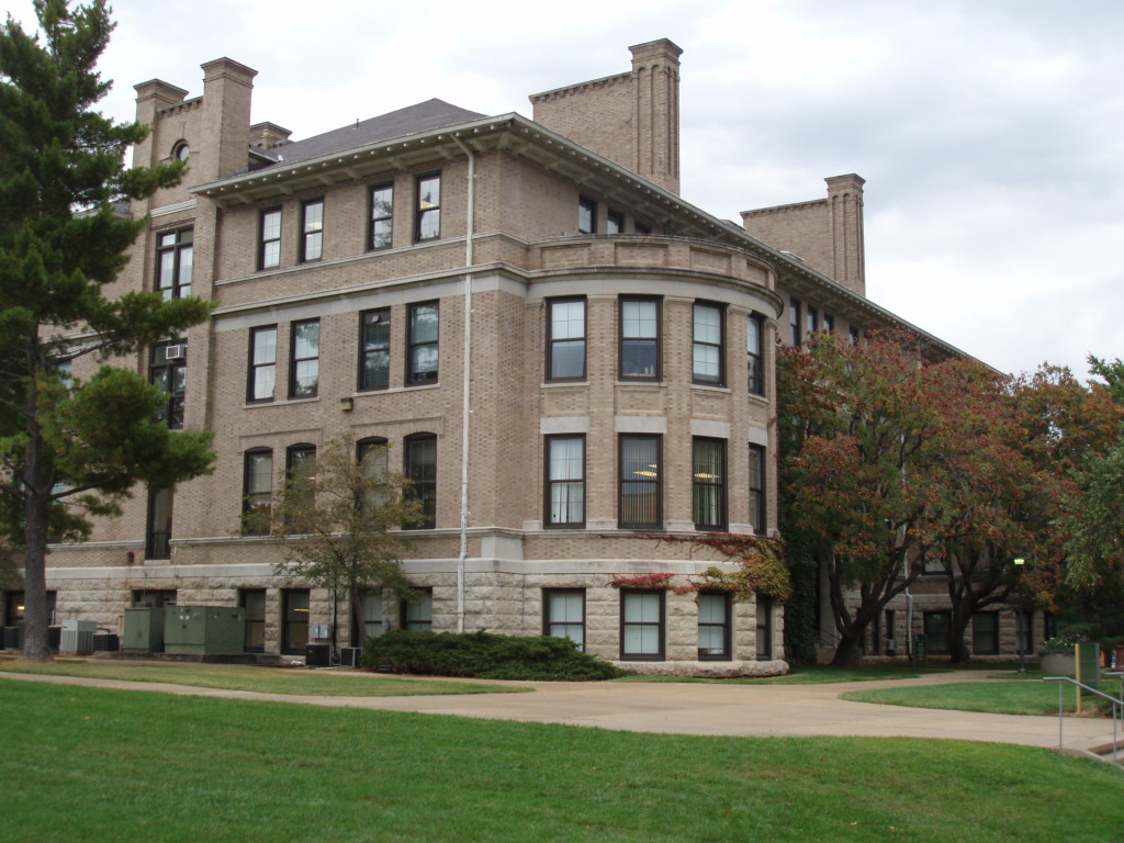 photo of Norwood Hall from the southwest, on the Missouri S&T campus in Rolla, Missouri; October 17, 2008